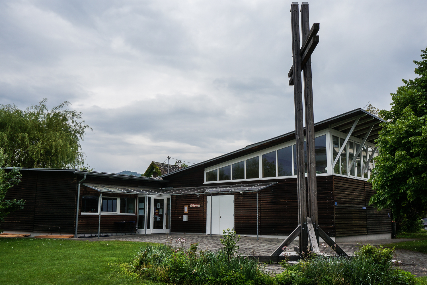 Church hl. Franz von Sales, the Parish of St. Josef Siebenhütel, Klagenfurt St. Martin, Franz von Sales 1st place, Carinthia, Austria, EU